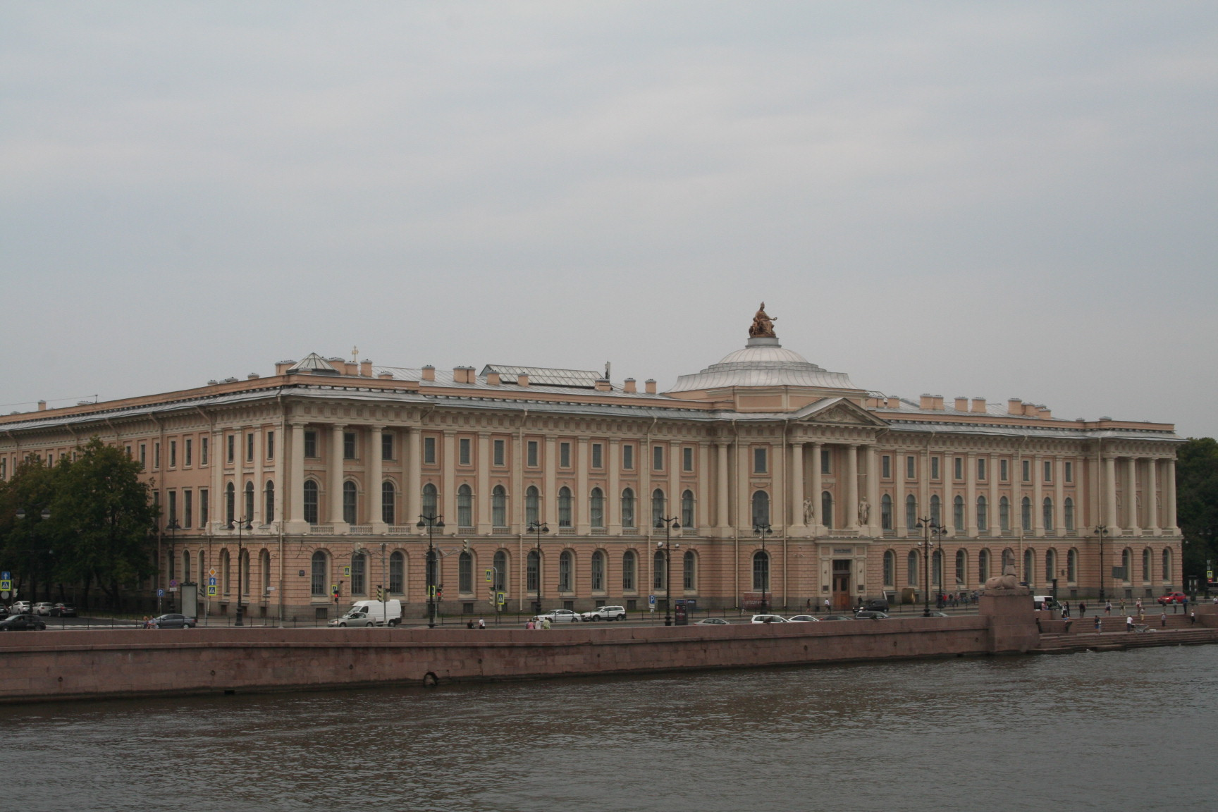 Institute named after Repin in Saint Petersburg